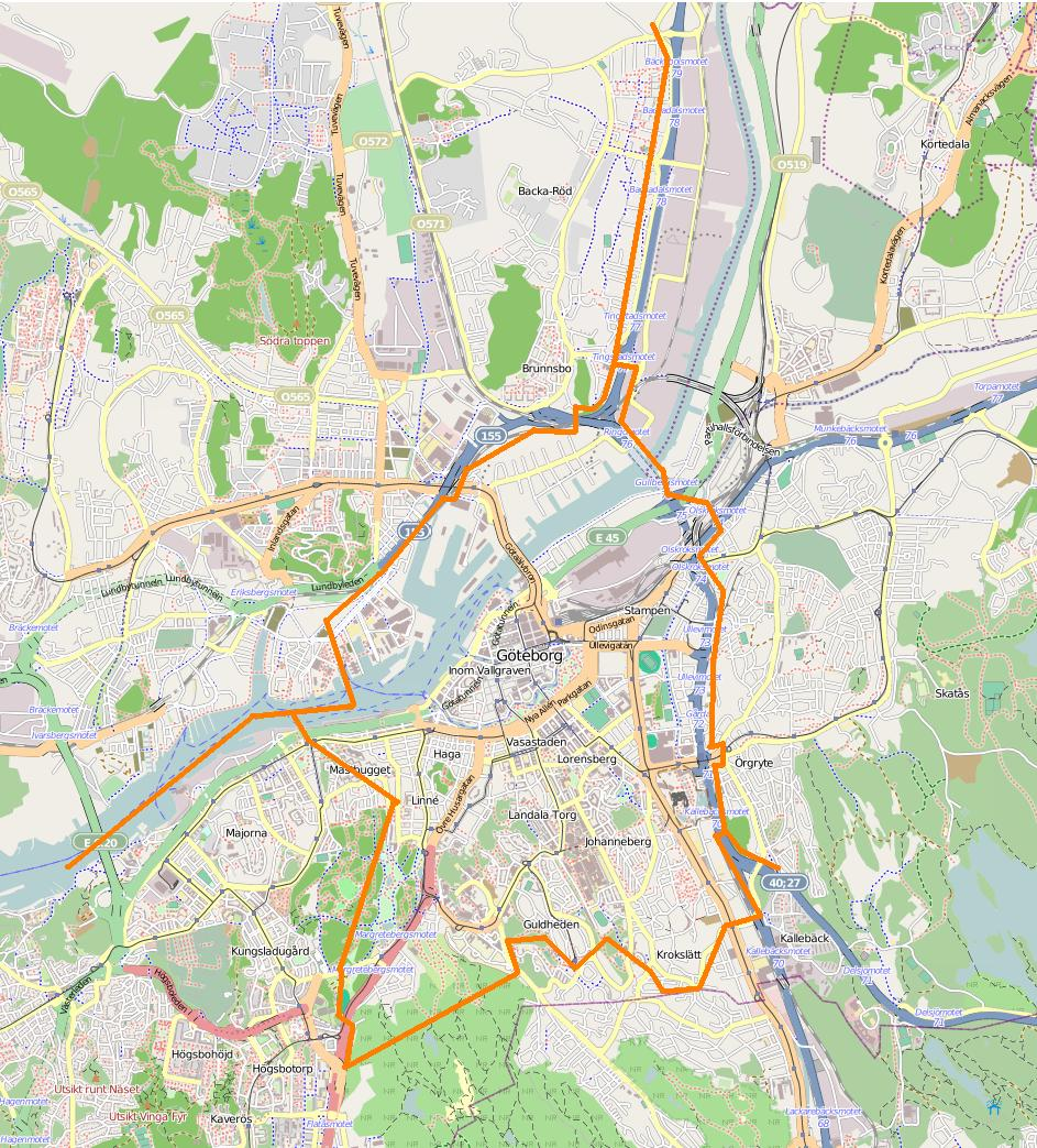 Map of congestion charges in Göteborg = Göteborg with control points marked. This map is based on Image:OSM-Goteborg.png